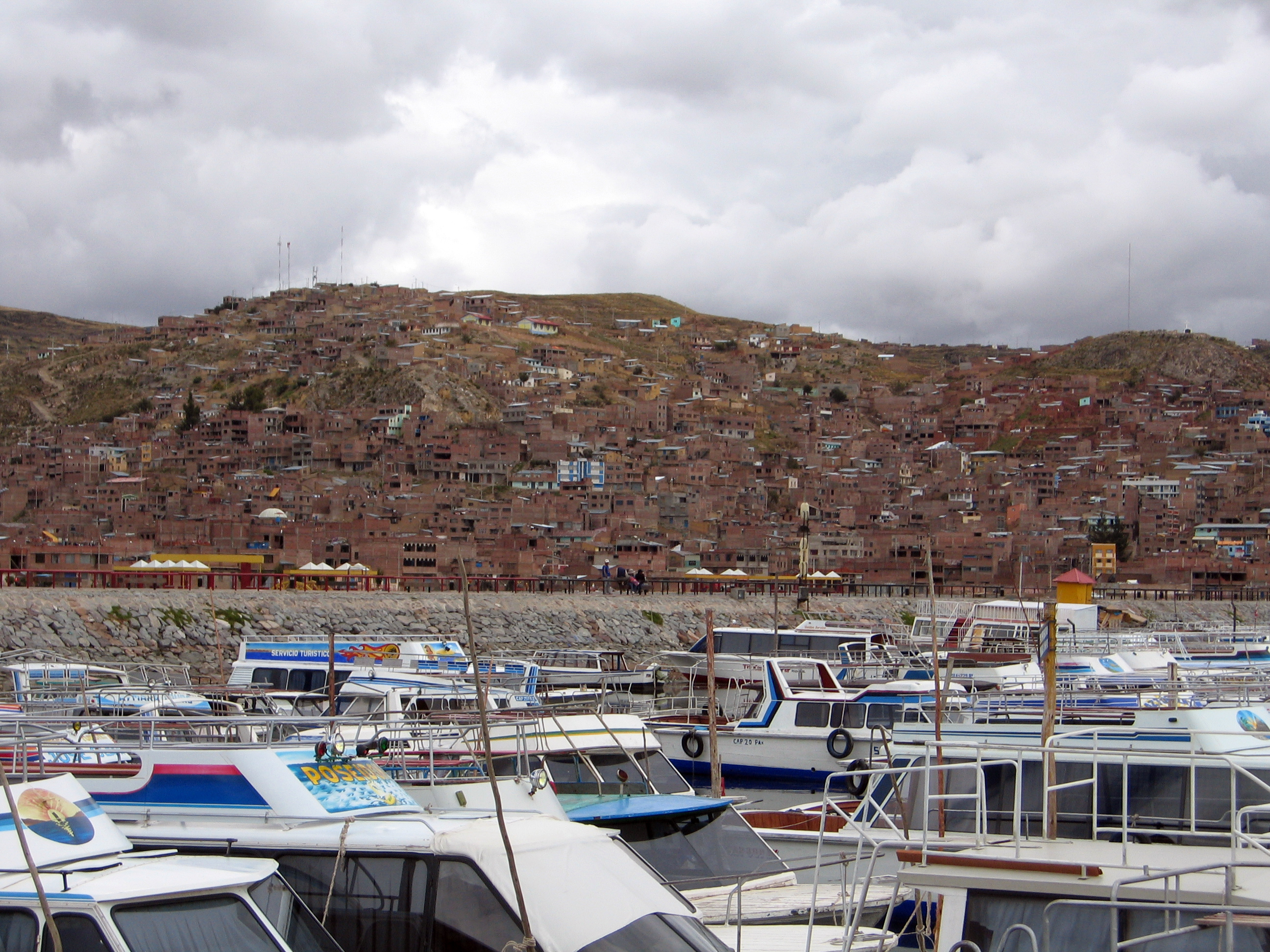 View of Puno and Titicaca